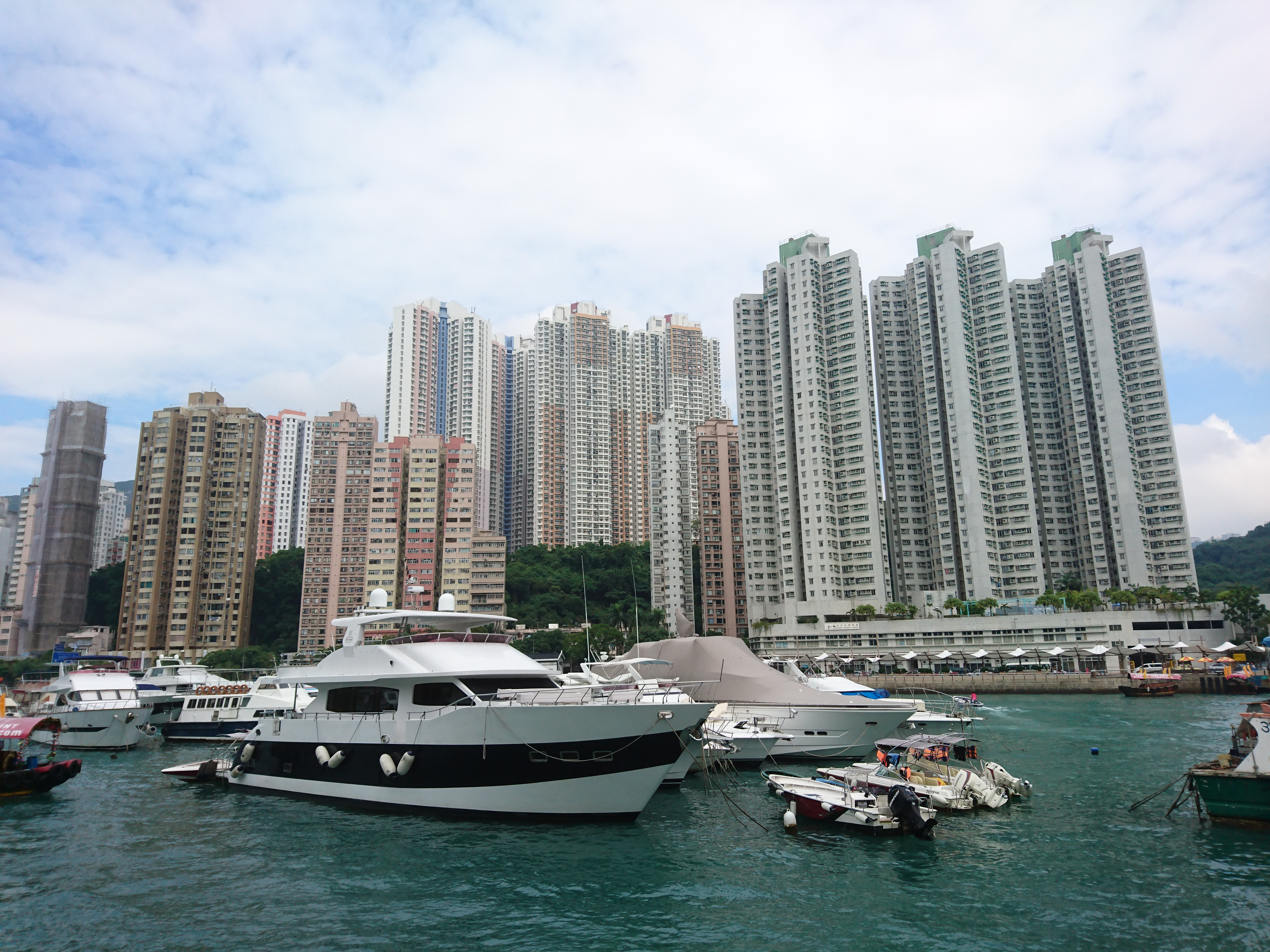 Aberdeen Fifteen Houses in 2016